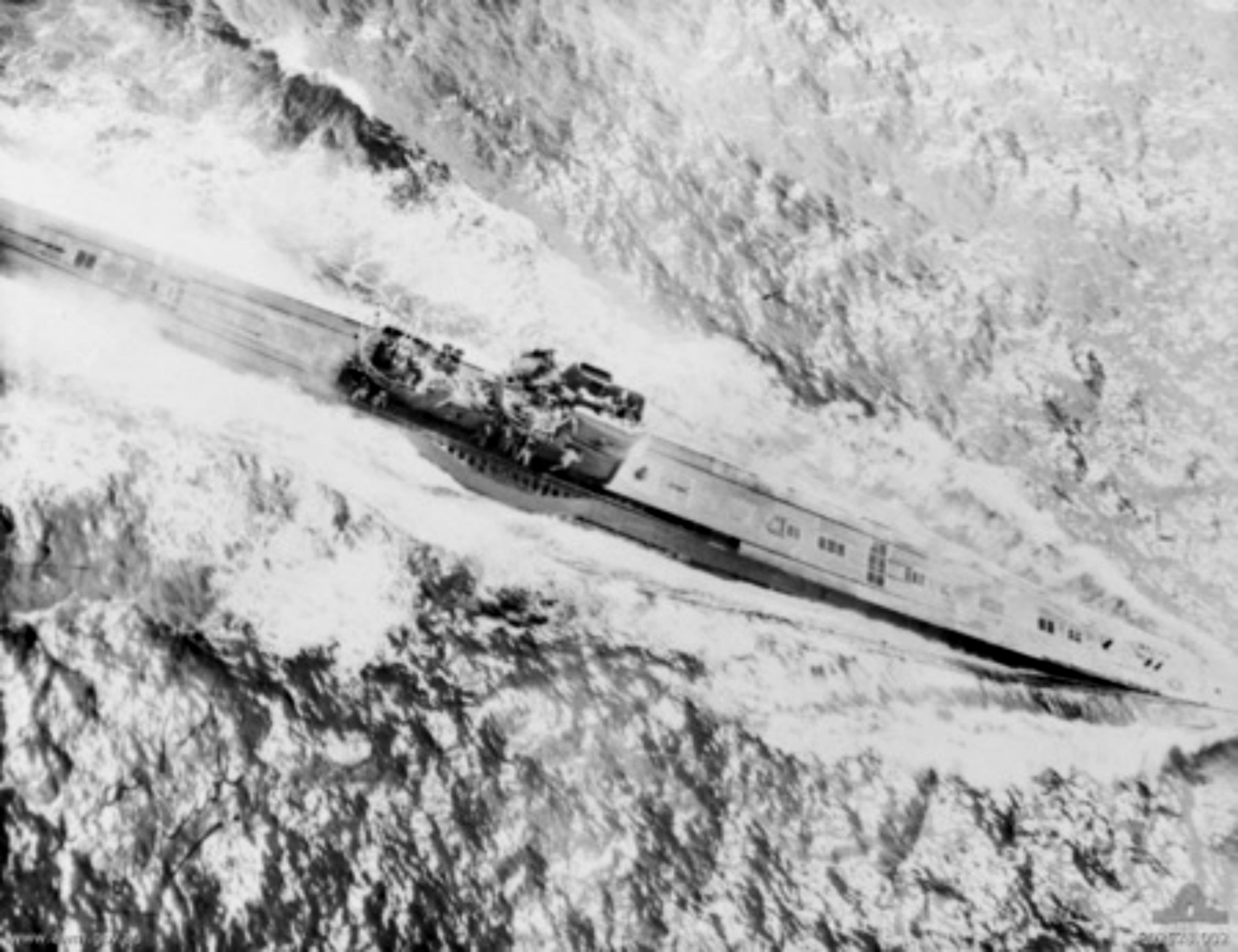 The German U-boat U 534 a type IXC/40 submarine commanded by Kapitanleutnant Herbert Nollau, ploughs through the water attempting to evade the attack of a Consolidated Liberator "G" of 86 Squadron, RAF Coastal Command. U 534 was earlier attacked by another Liberator which it shot down with no survivors. The submarine was sunk east of Anholt Island, Denmark, after being attacked by Liberator "G" with a total of ten depth charges. This action, for which the captain, Warrant Officer J.D. Nicol, RAF, was awarded a DFC, occurred in a 24 hour period in which five German U-boats were sunk. U534's sinking resulted in three dead and 49 survivors from its crew. They were rescued by lifeboats from a lightship in the vicinity. On 5 May 1945, for unknown reasons, the captain of U 534 ignored the order to surrender, issued to all U-boats by Admiral Dönitz, and set course for Norway instead. To this day, mystery still surrounds U-534's refusal to surrender. U 534 was raised in 1993 and is on display at Birkenhead, near Liverpool (UK).